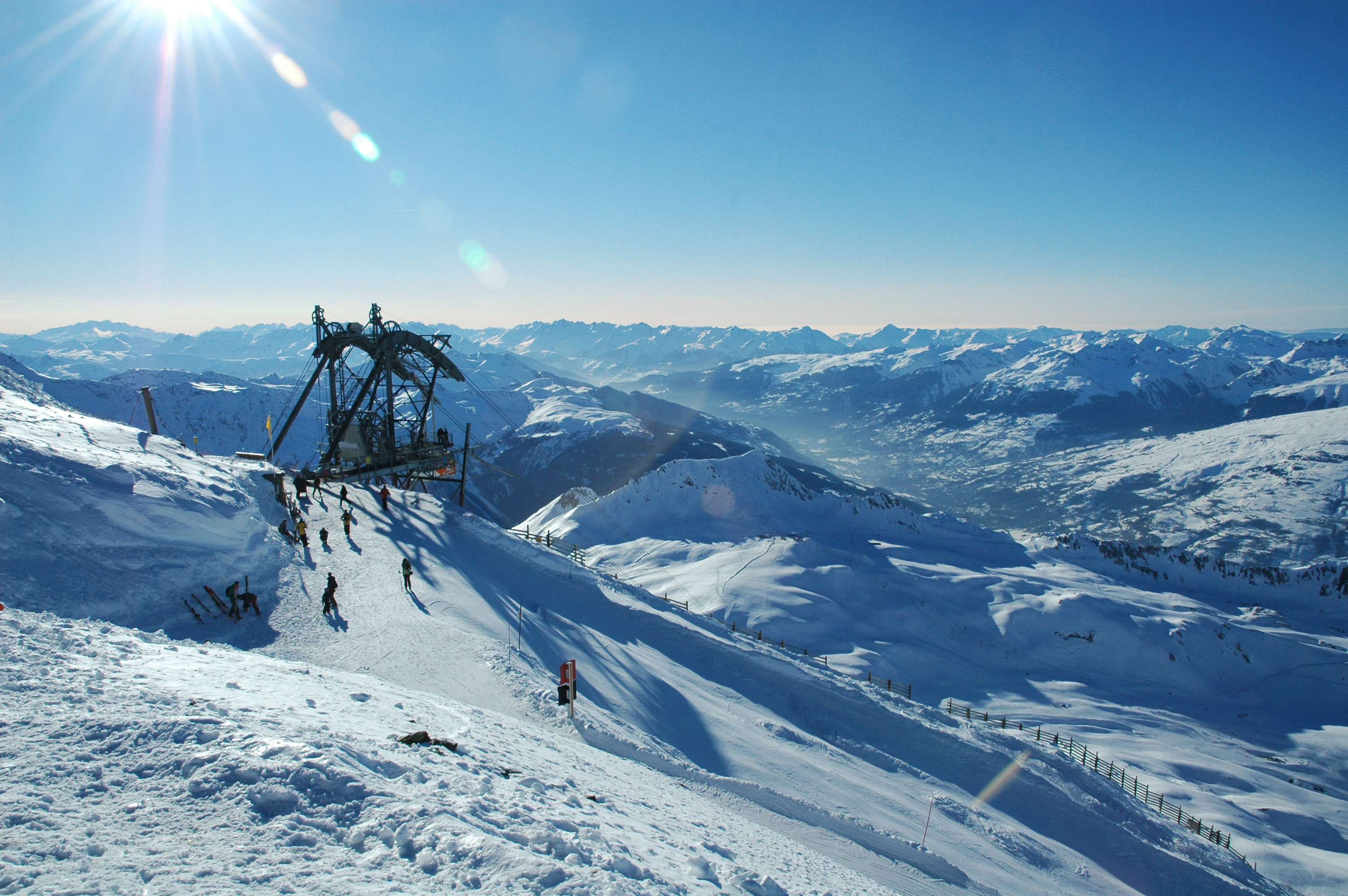 Top of the Aiguille Rouge in the ski resort Les Arcs, Savoie, France. Left is the top station of the aerial tramway "Aiguille Rouge". Picture taken in the late afternoon.